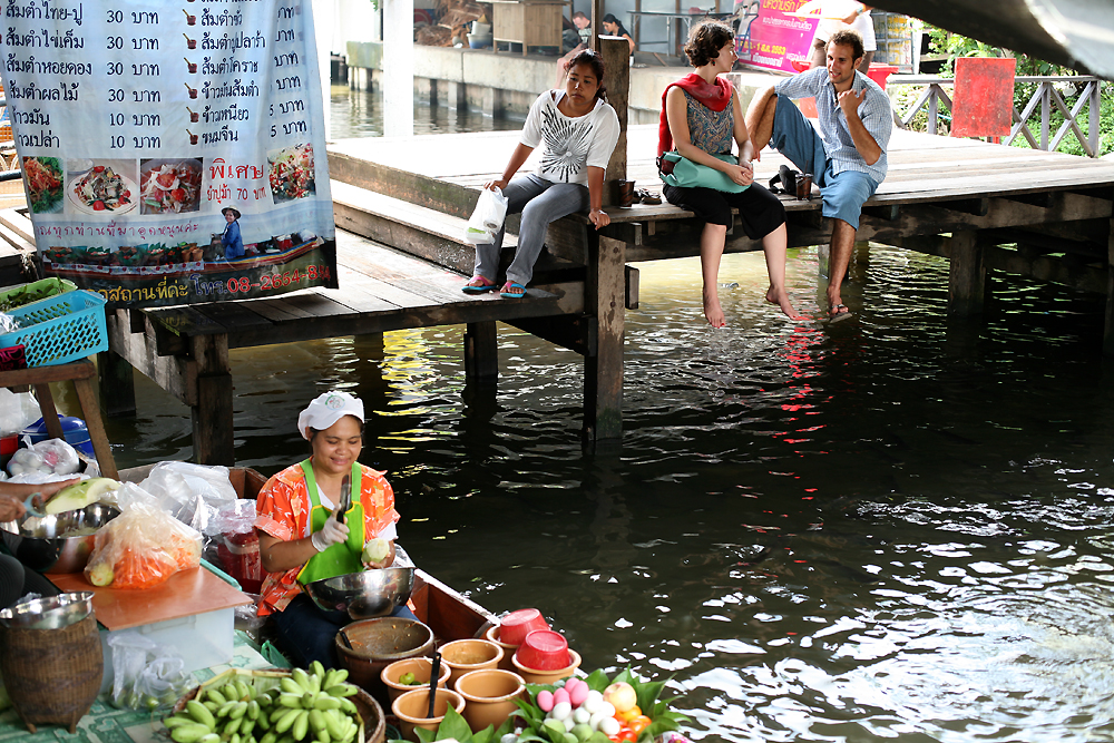 Floating market in Taling Chan District, Bangkok